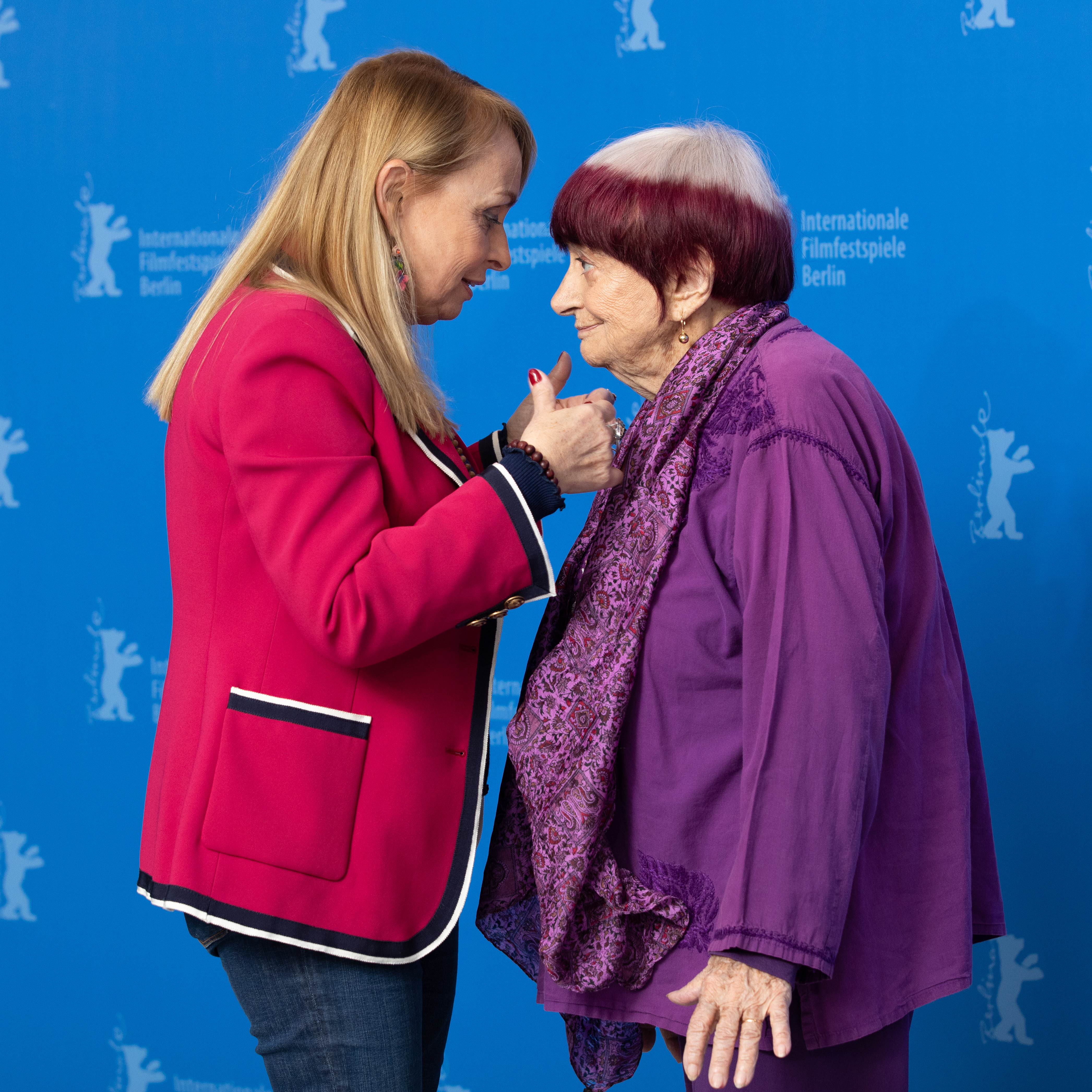 Rosalie and her mother Agnès Varda at the Berlinale 2019